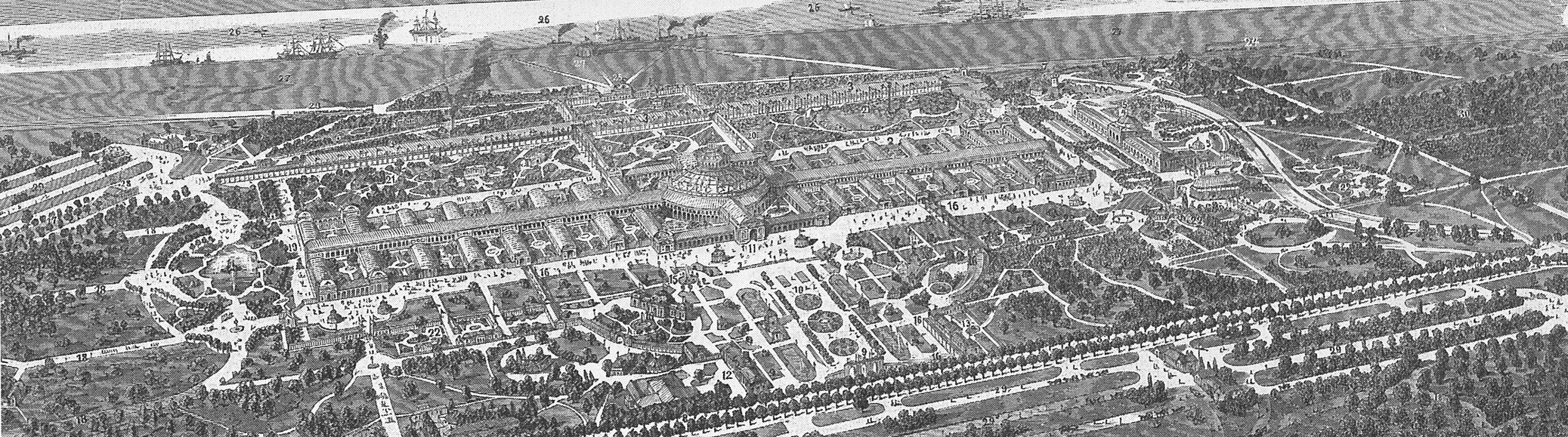 map of the area of the Expo 1873 in Vienna